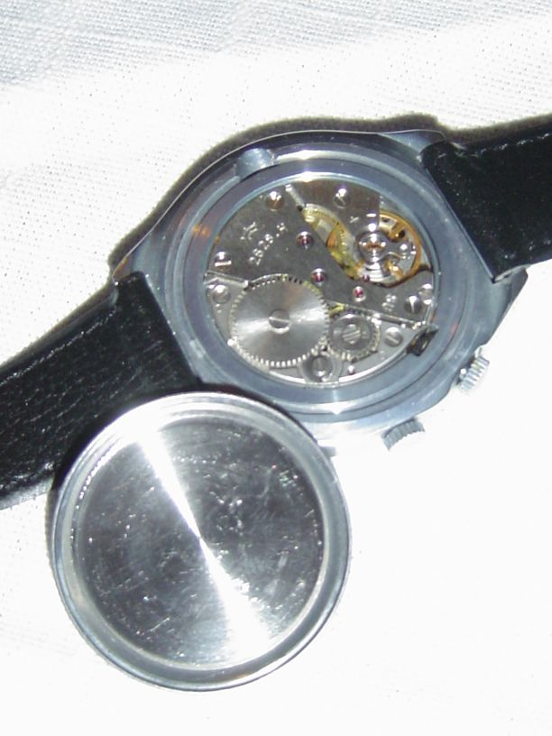 Russian watch Raketa